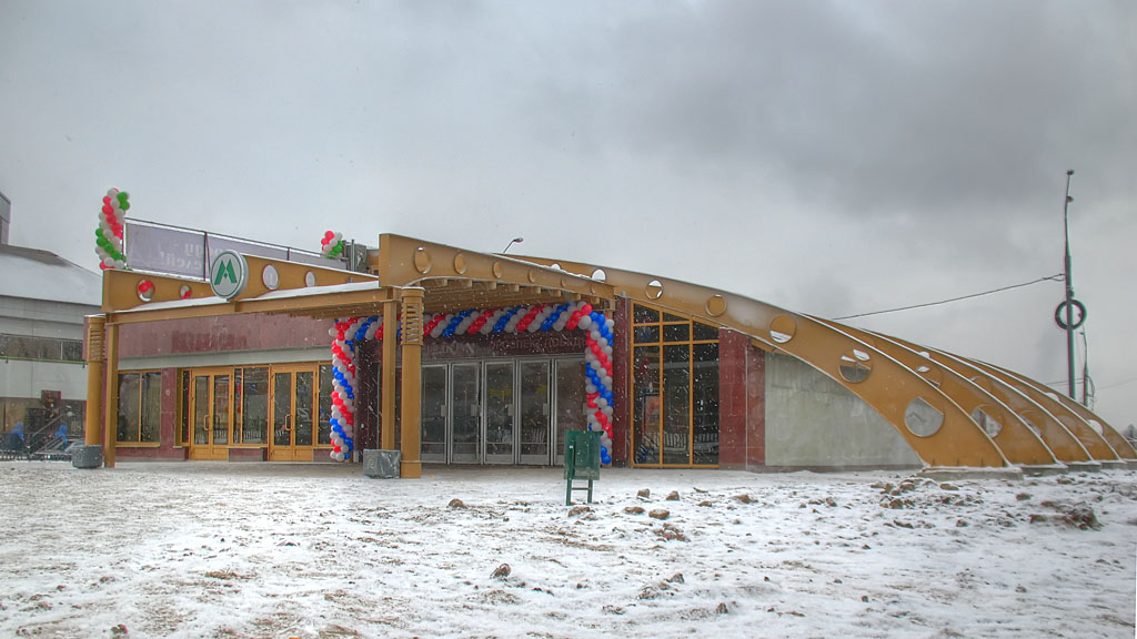 Kazan metro station "Prospect Pobedy" - enterance